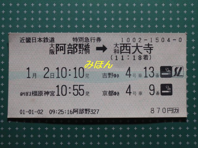 Limited express ticket of Kinki Nippon Railway.The reserved seat "from Osaka-Abenobashi to Kashiwara-Jingumae" and "from Kashiwara-Jingumae to Yamato-Saidaiji" in two sections has been brought together in one piece.